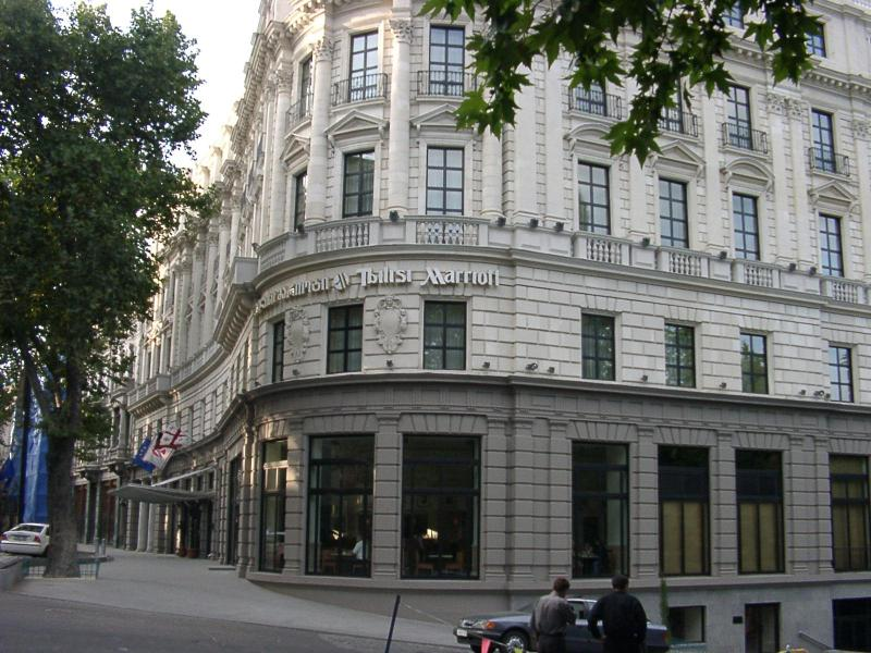 TBILISI MARIOTTGeorgia